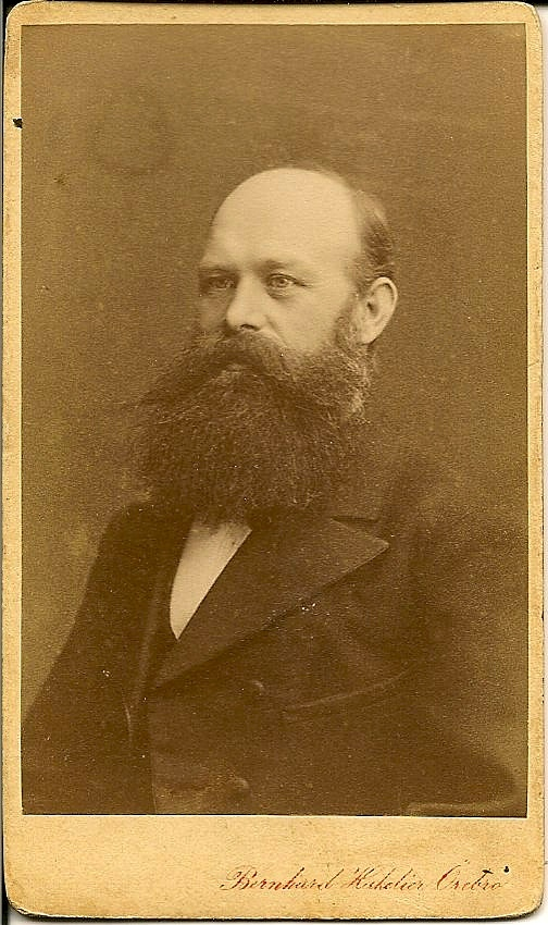 Swedish politician from late nineteenth century